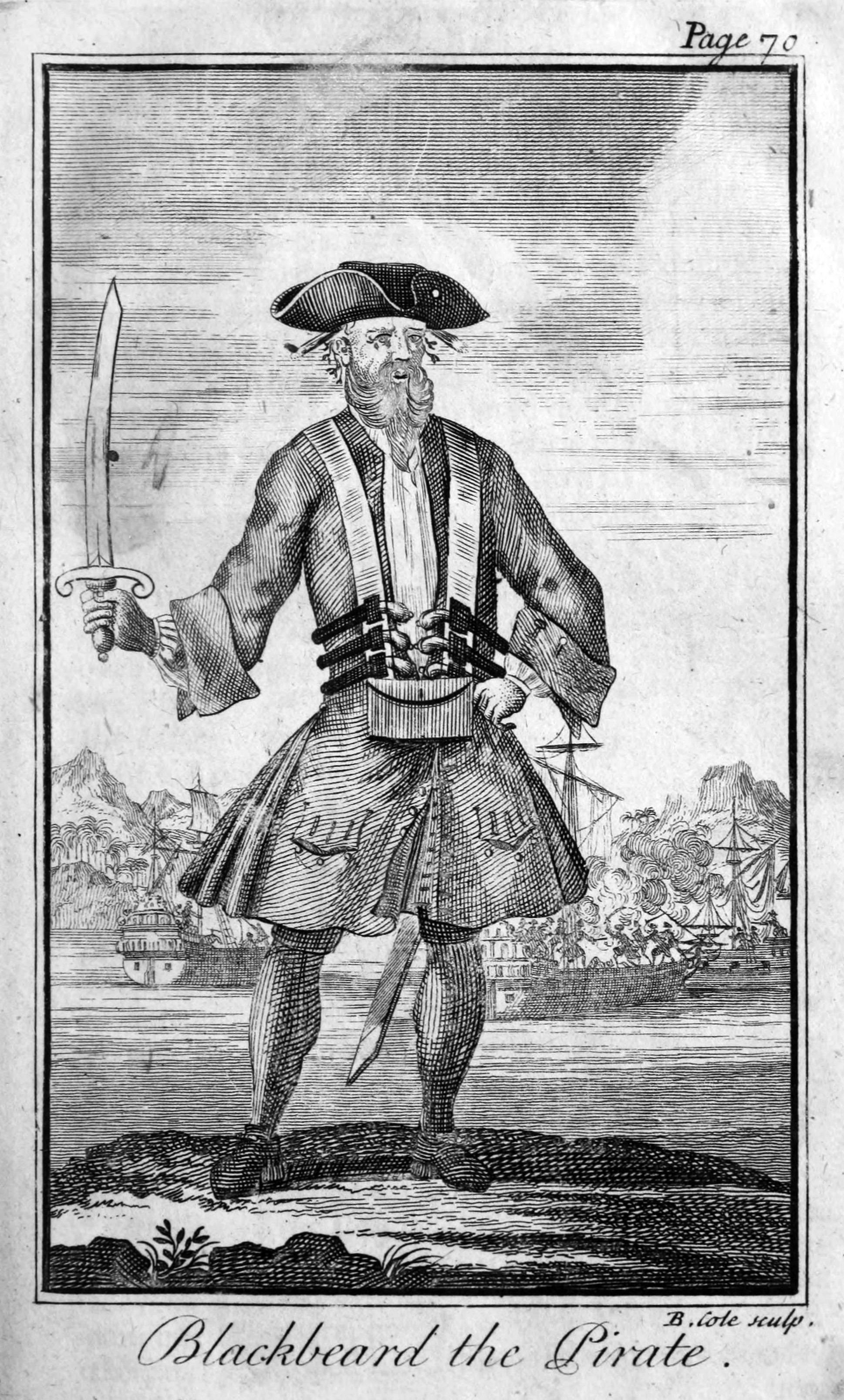 Blackbeard the Pirate